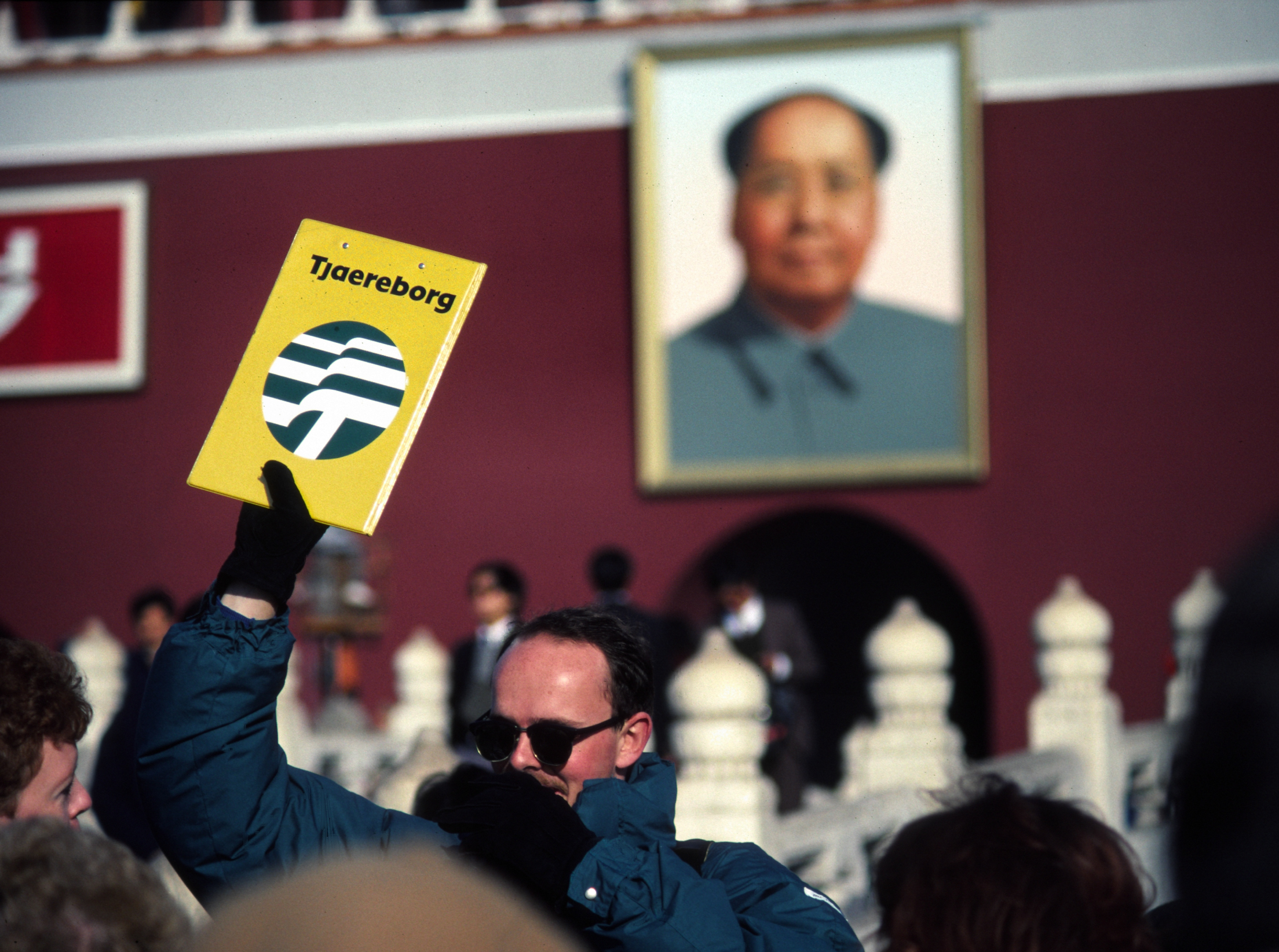 Danish Tjaereborg tour guide on Beijing's Tiananmen Square 1988, with portrait of Mao in the background.